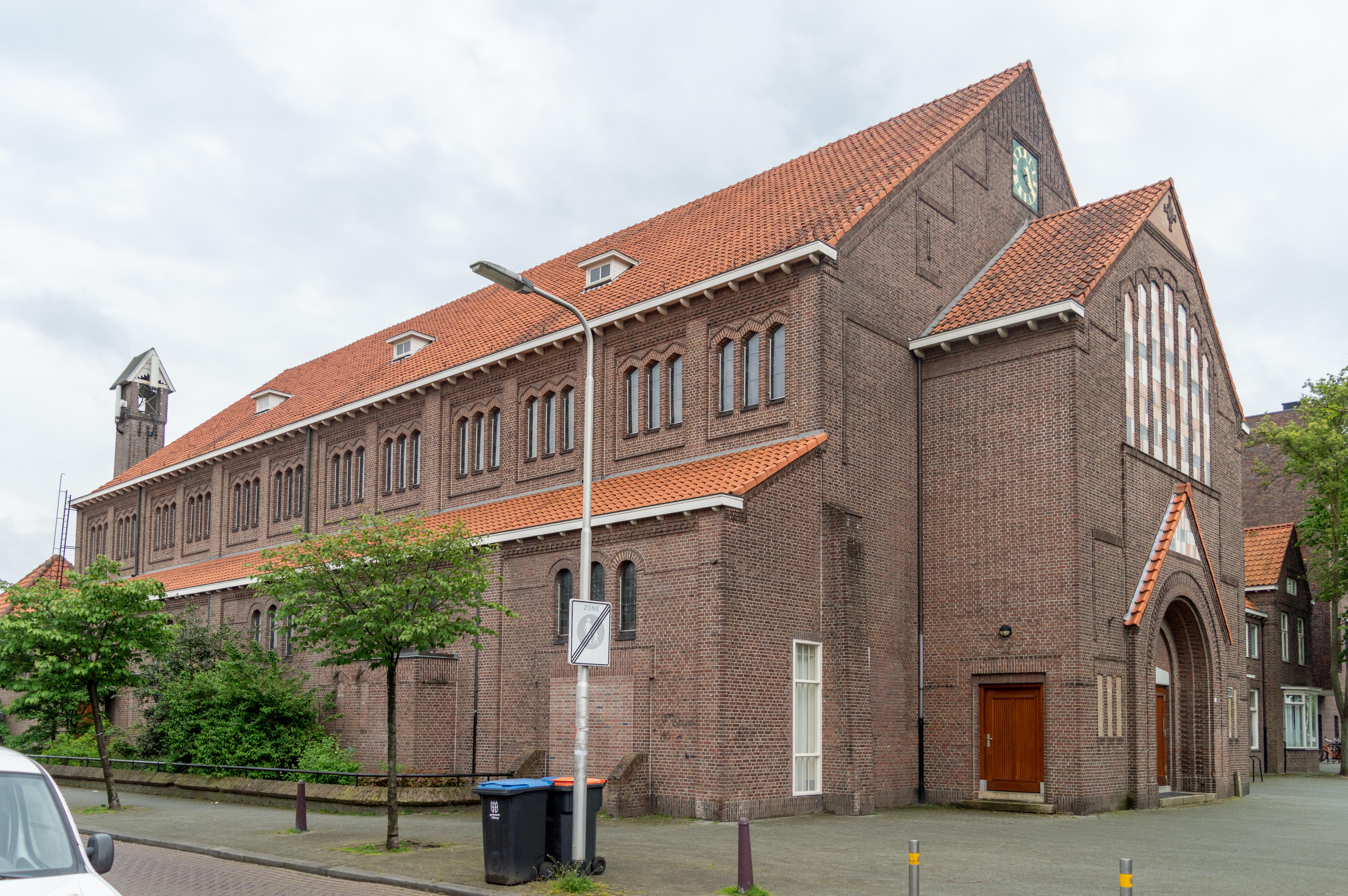 The front and side (west and north facades) of the Gerardus Majellakerk in Tilburg.